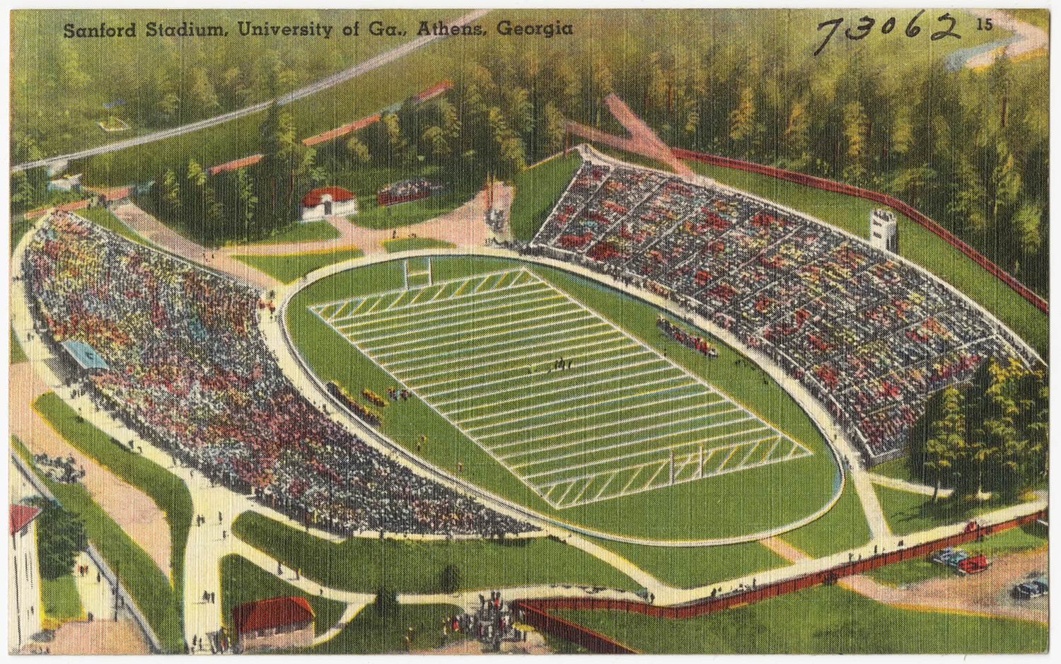 File name: 06_10_013833 Title: Sanford Stadium, University of Ga. Athens, Georgia Date issued: 1930 - 1945 (approximate) Physical description: 1 print (postcard) : linen texture, color ; 3 1/2 x 5 1/2 in. Genre: Postcards Subject: Stadiums Notes: Title from item. Collection: The Tichnor Brothers Collection Location: Boston Public Library, Print Department Rights: No known restrictions